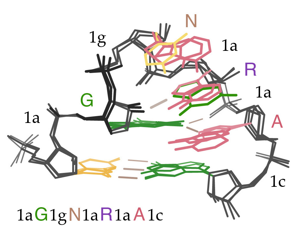 3 superimposed examples of the GNRA tetraloop motif in RNA structure, with labels for the base sequence (G-N-R-A) and the backbone suite conformers (2-character number-letter codes). Coordinates from NDB files pr0037, ur0007, and rr0082; conformers from SuiteName; graphics from KiNG.